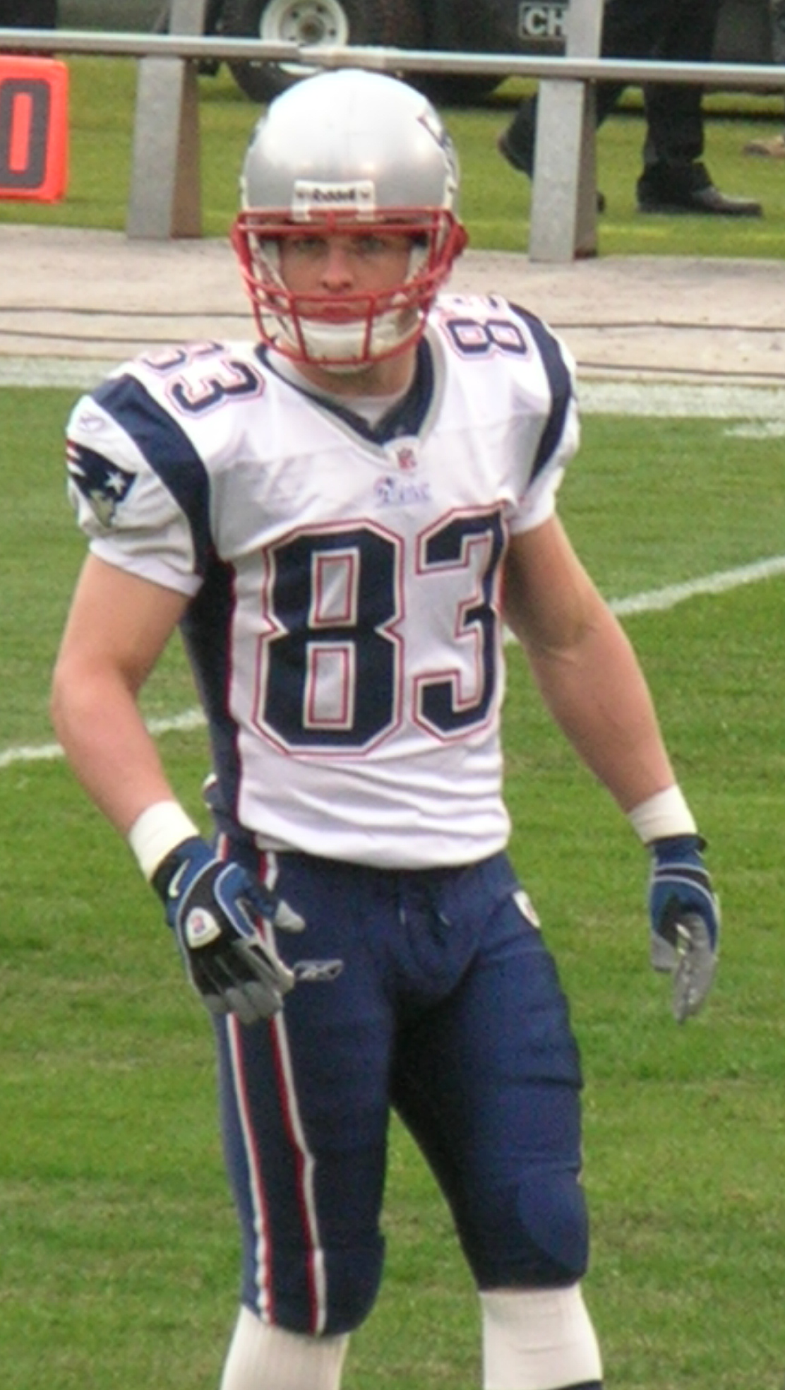 New England Patriots wide receiver Wes Welker on the field prior to an away game against the Oakland Raiders. The Patriots won 49-26.